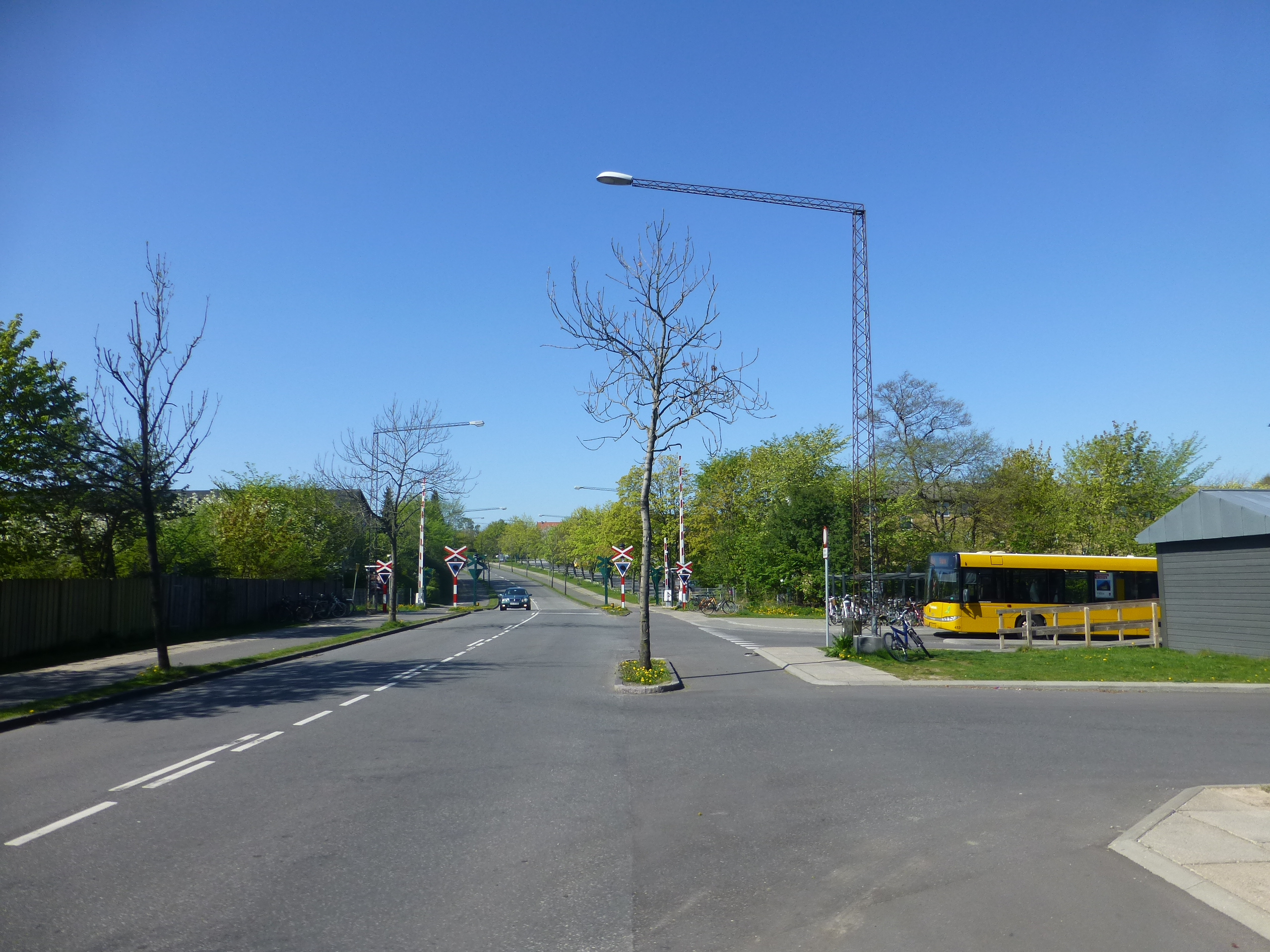 Bus line 6A at Vestre Strandalle Station in Risskov in Aarhus in Denmark.